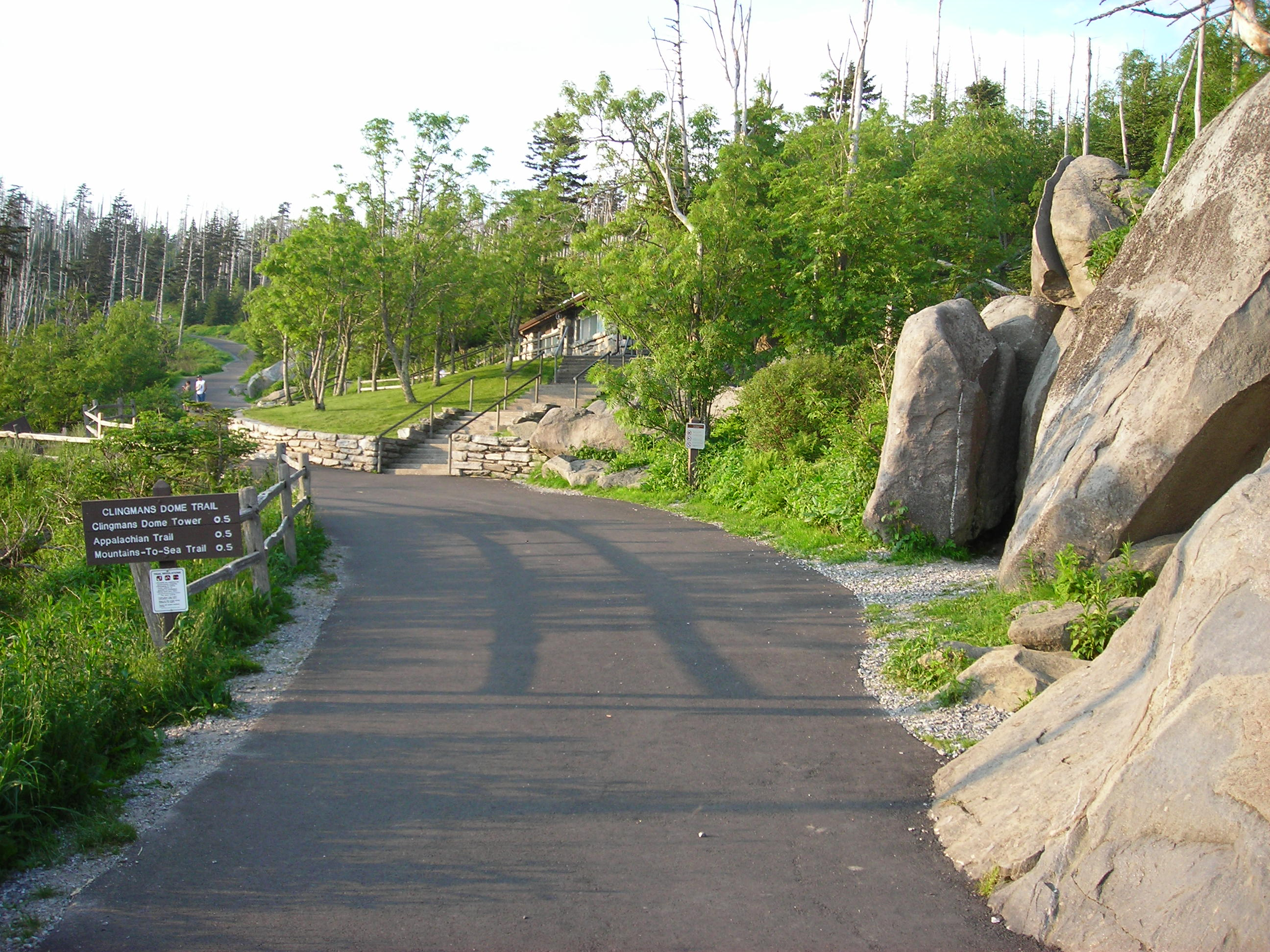 The Clingmans Dome Trail is one of my most heavily trafficked in the Great Smoky Mountains National Park of the U.S. states of North Carolina and Tennessee. Photo taken by myself, Scott Basford, in June of 2006.